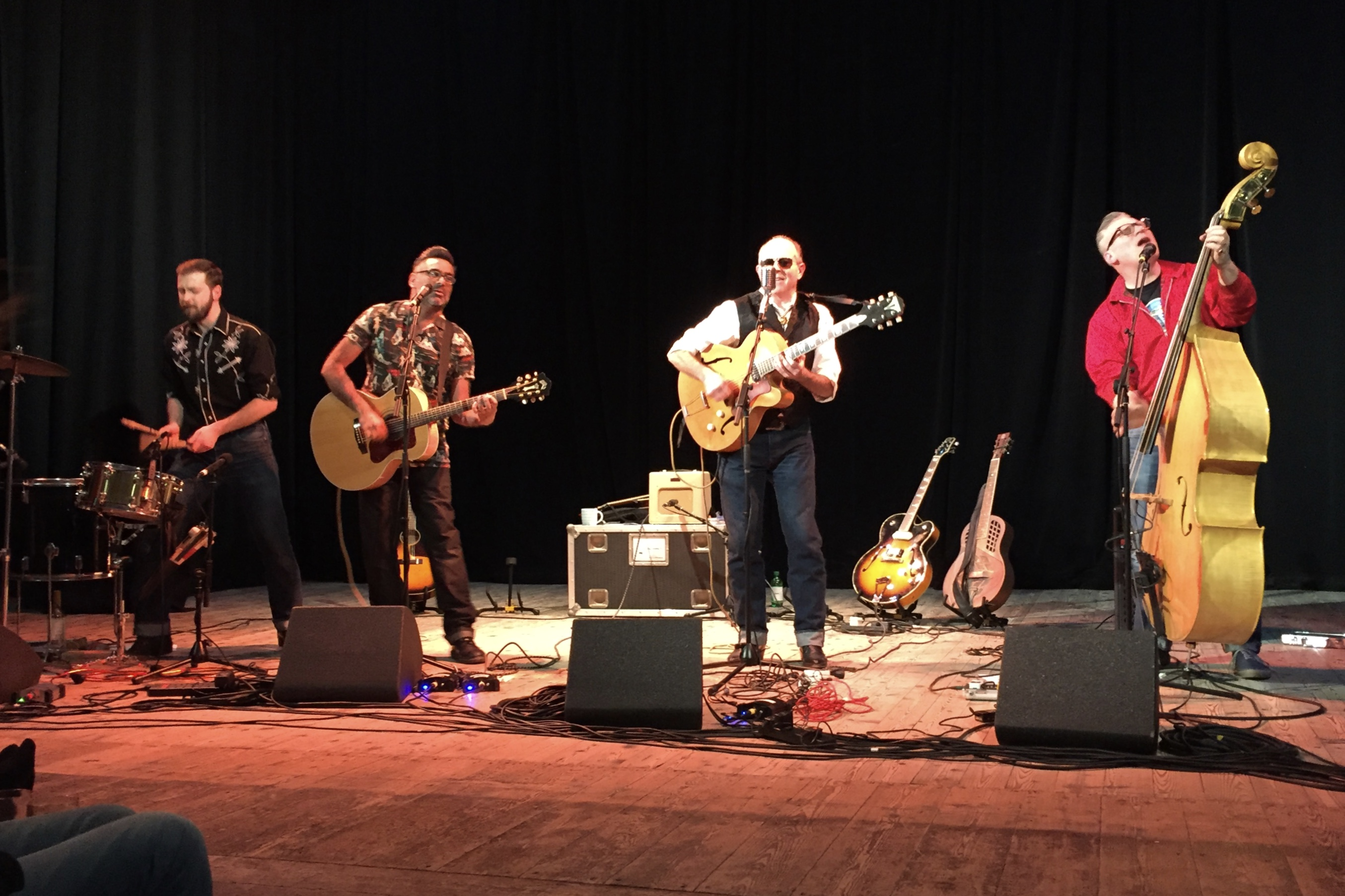 The Dodge Brothers playing at the Shelley Theatre, Bournemouth, on 27 February 2016.